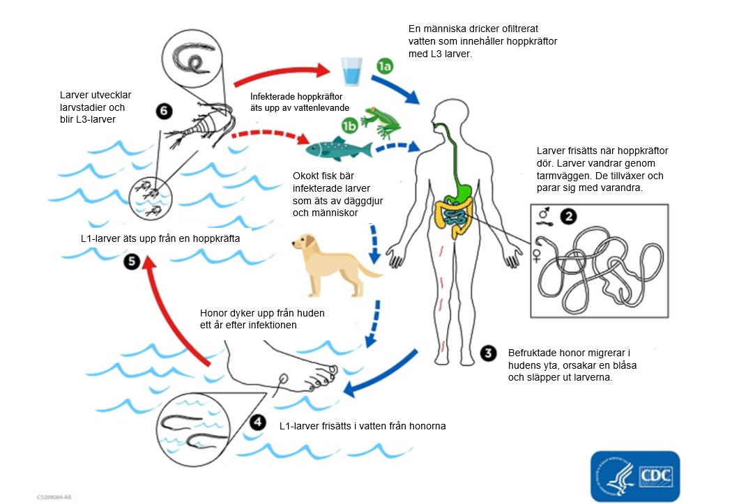 Lifecycel of guineaworm (swedish)